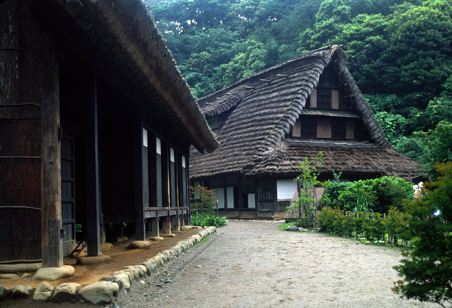 Japanese traditional house on display at Nihon Minka-en, Kawasaki, Kanagawa prefecture, Japan. I took this photo and contribute my rights in the file to the public domain.